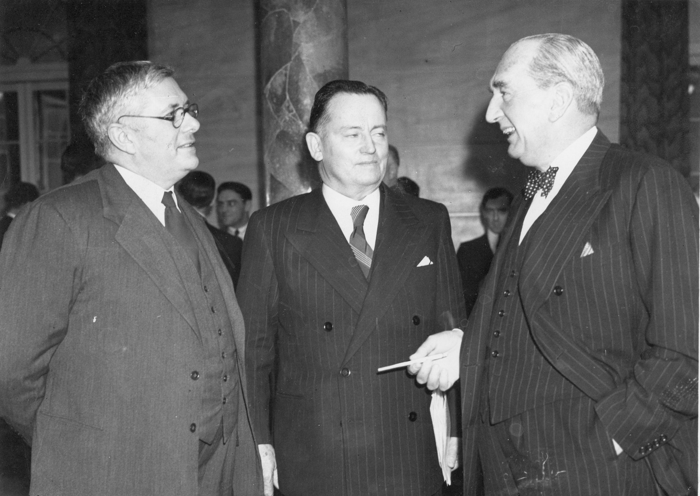 H. V. Evatt, Frank Forde, and Stanley Bruce in London in 1945.